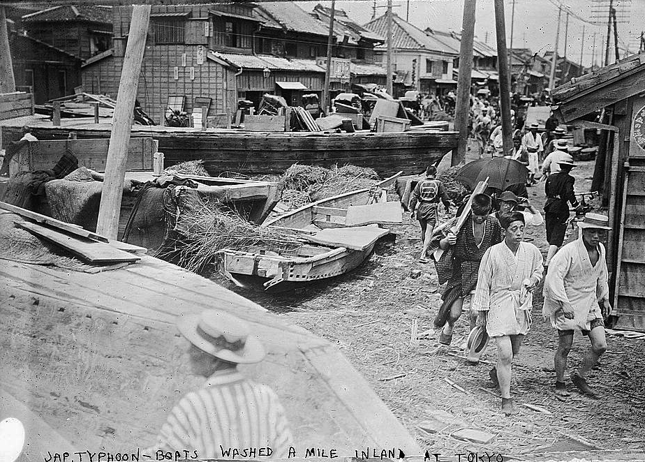 Photograph shows destruction caused by a typhoon coming ashore in Japan, possibly in 1911. (Source: The Chicago Daily Tribune, Aug. 14, 1911, reported a tidal wave and typhoon on July 26 that wrecked a Japanese torpedo boat (shown in this series), swept ashore at Tokyo.) Possible date based on 1911 appearing in negatives with nearby call numbers and the newspaper article from 1911.